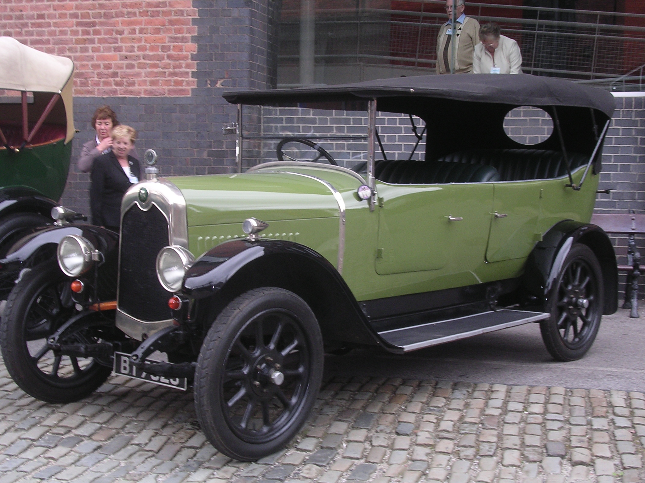 Crossley 14hp (DVLA) first registered 1 January 1925, 1956cc